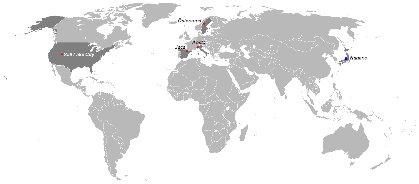 The candidate cities to host the 1998 Winter Olympics, derived from blank world map.